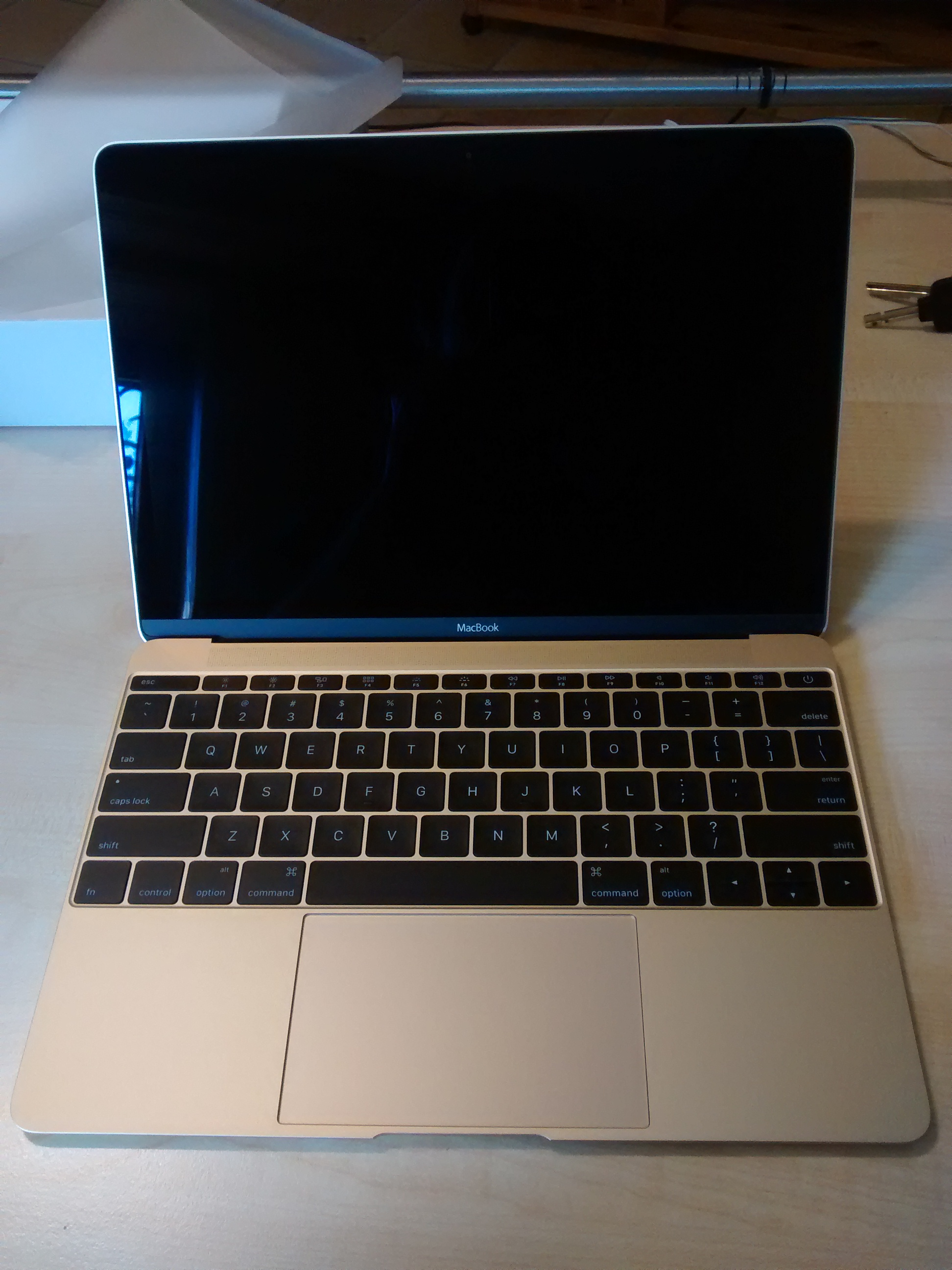 Direct delivery from AppleOnlineShop over UPS.